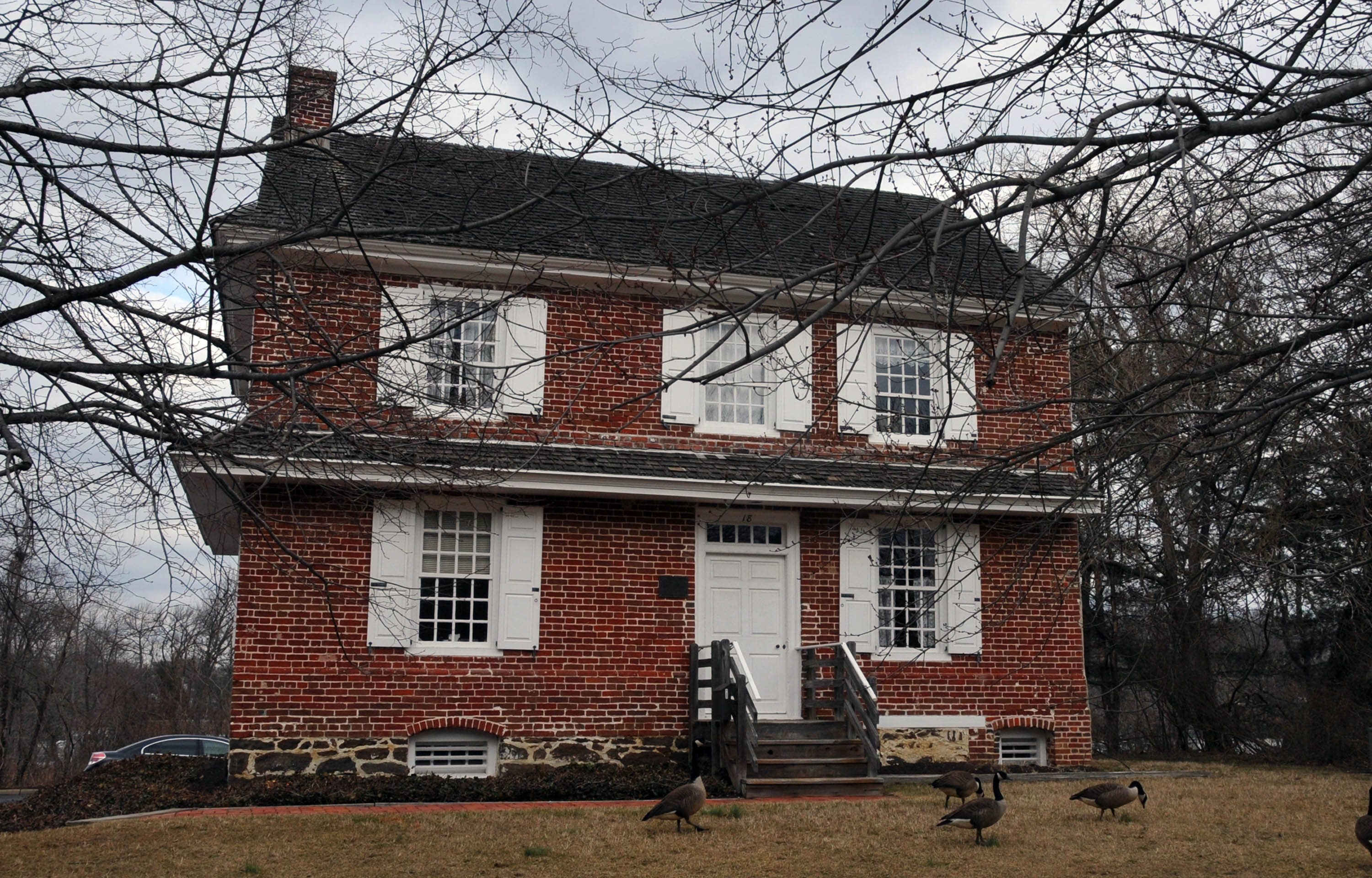 THOMAS HOLLINSHEAD HOUSE - 1776; ON STOW ROAD IN MARLTON; ALSO KNOWN AS THE EVES HOUSE, STOW HOUSE, AND STOKES HOUSE; THE “STOW” IN STOW ROAD MAY BE RELATED TO “PASS AND STOW” ON THE LIBERTY BELL ACCORDING TO STOW DESCENDENTS. THIS HOUSE IS LISTED ON THE NATIONAL REGISTRY WITH REFERENCE NUMBER 92000977